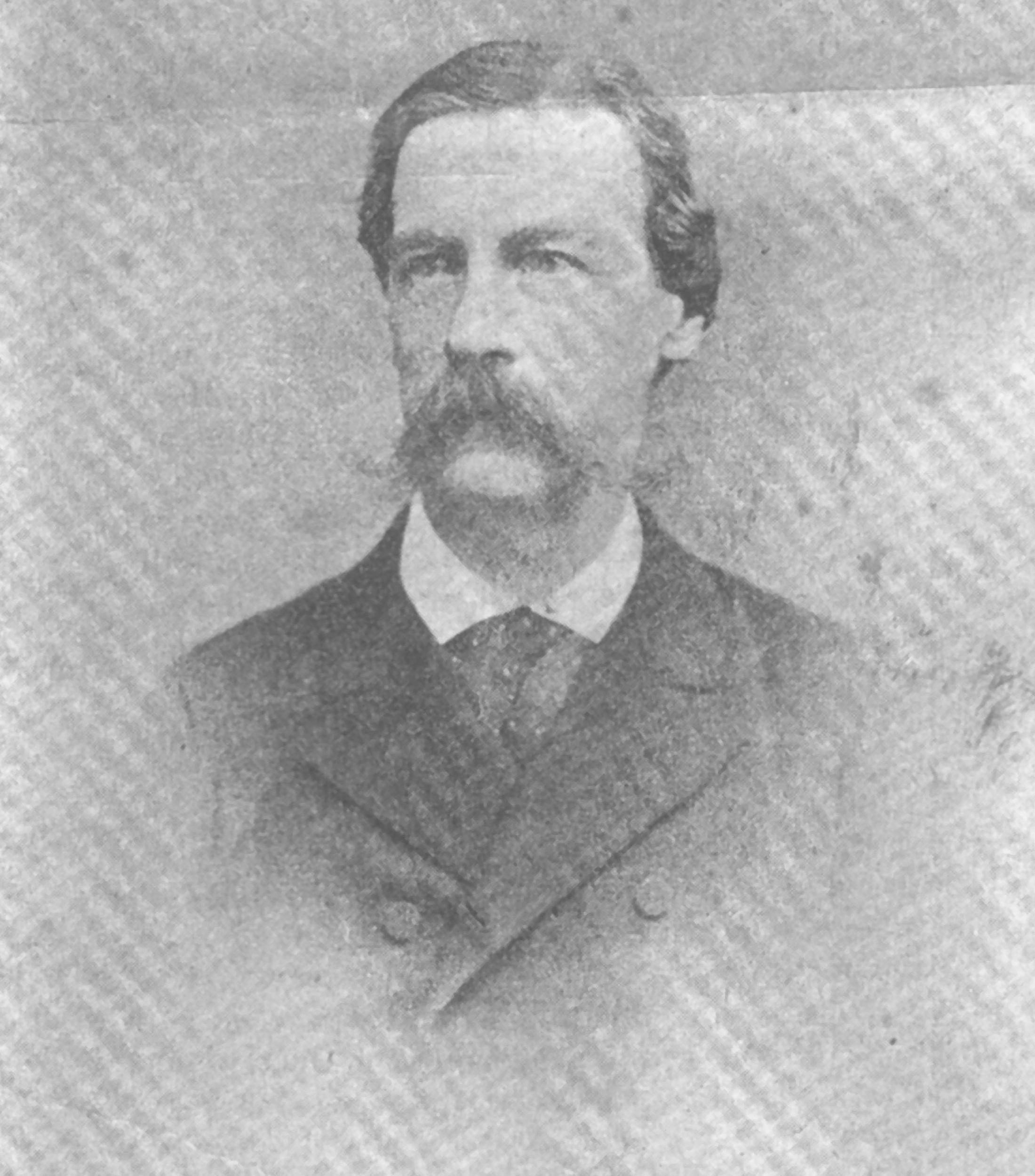 Photo of Karl Hohenwart (1824-1899), an Austrian politican